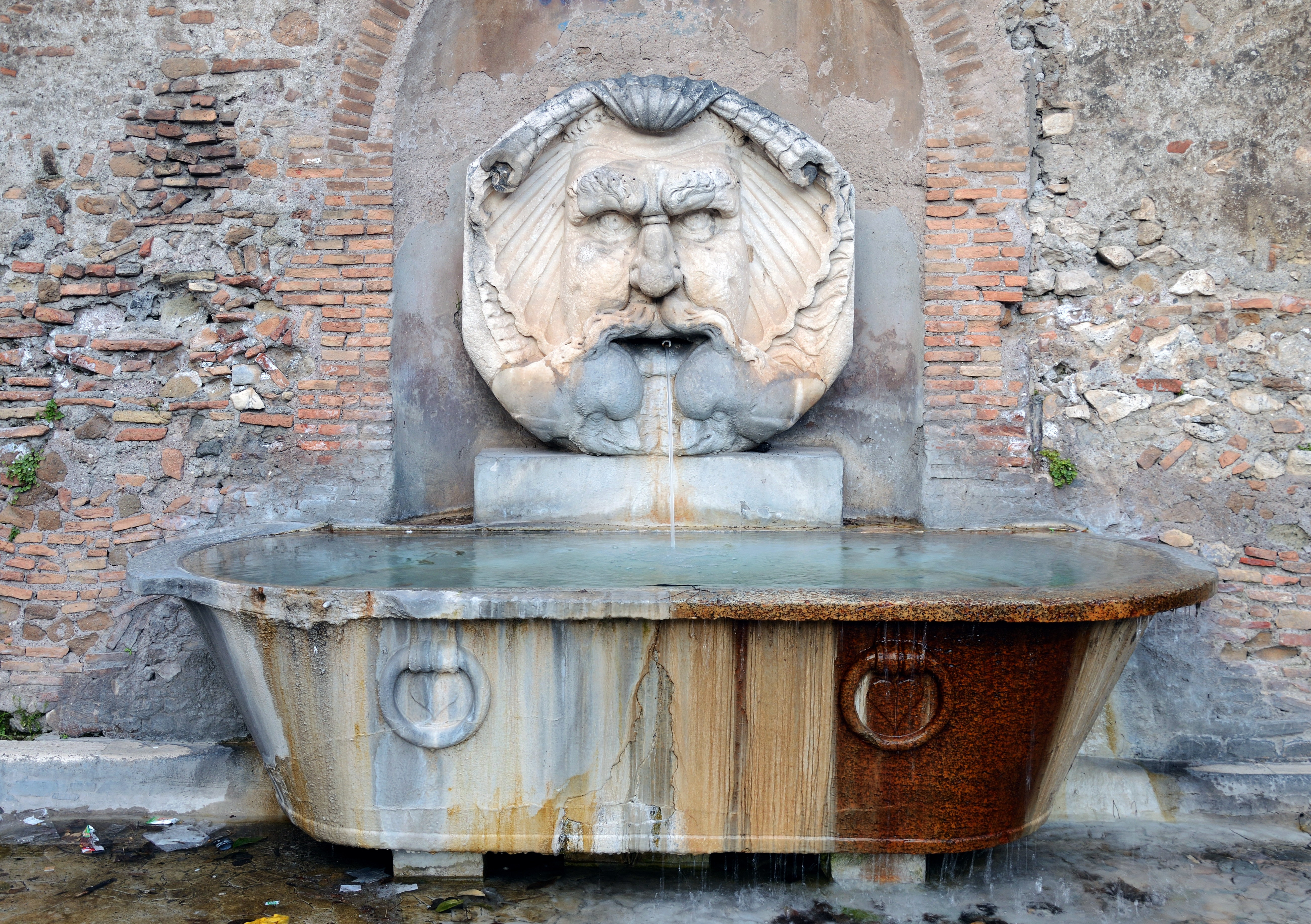 Fontana del Mascherone di Santa Sabina (Rome)